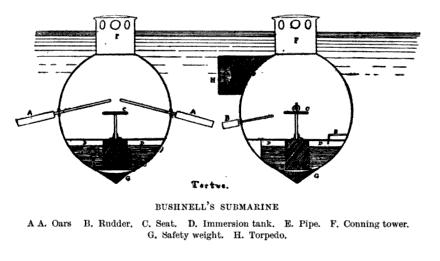 Diagrams depicting layout of Bushnell's Turtle submarine.